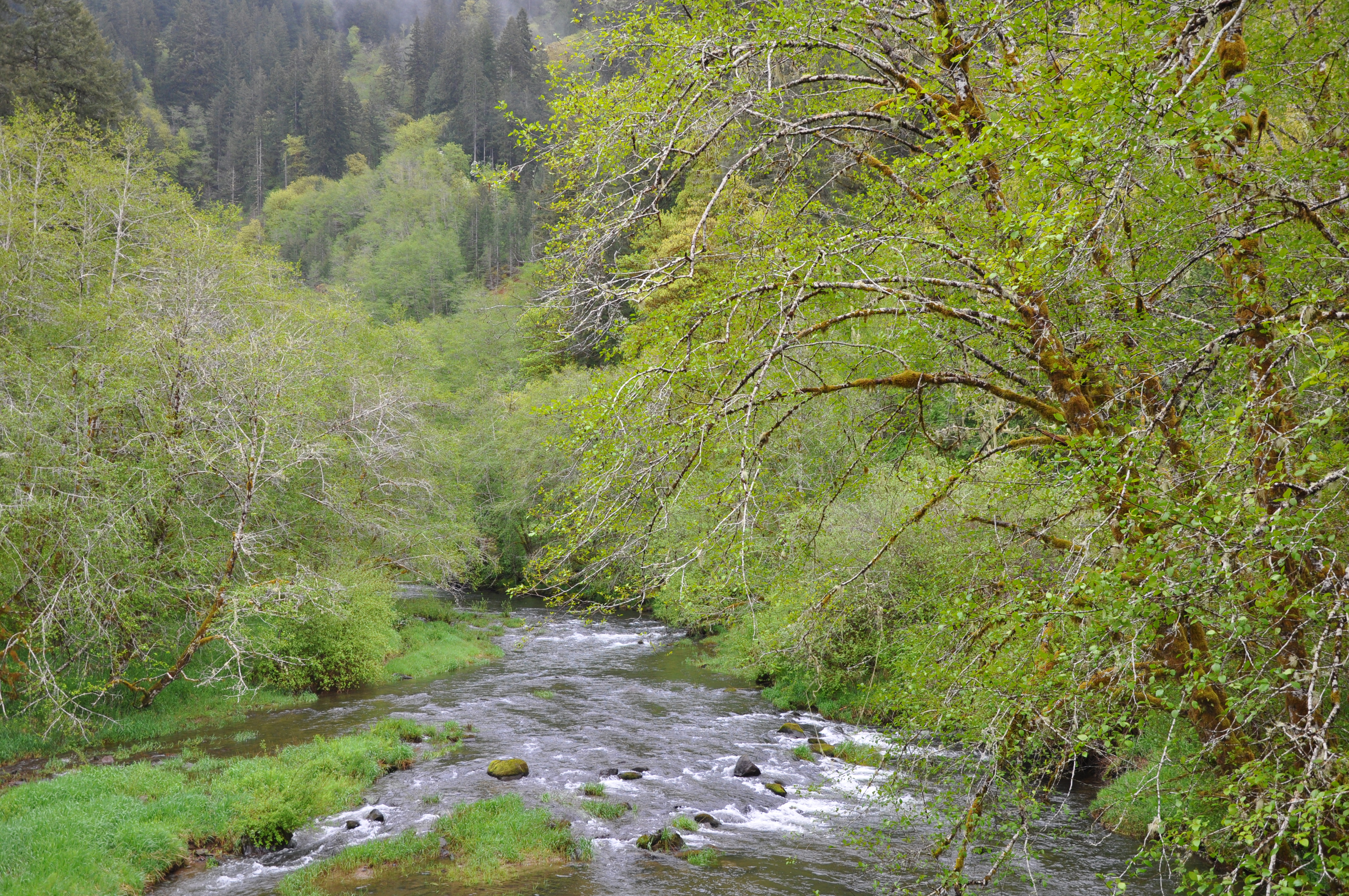 Deadwood Creek, a tributary of Lake Creek in the Siuslaw River basin of coastal Oregon in the United States. View is upstream from a bridge about 3 miles (5 km) from the community of Deadwood.